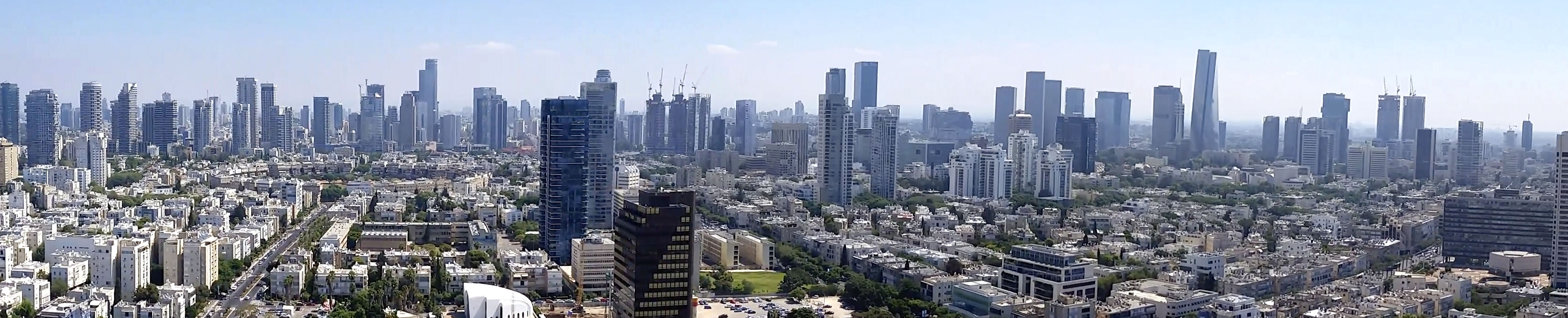 Panorama of the city of Tel Aviv